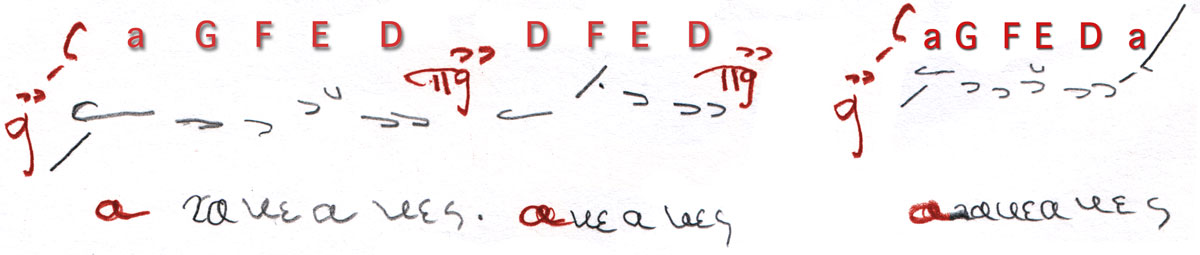 Intonations of the protos pentachord (Erotapokriseis treatise)